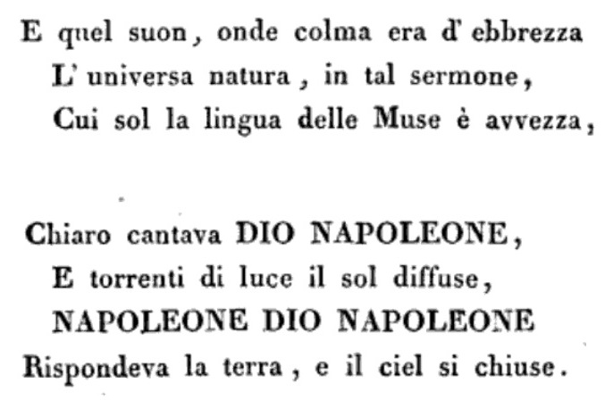 Concluding lines of Antonio Gasparinetti|'s poem Apoteosi di Napoleone primo imperadore e re cantica